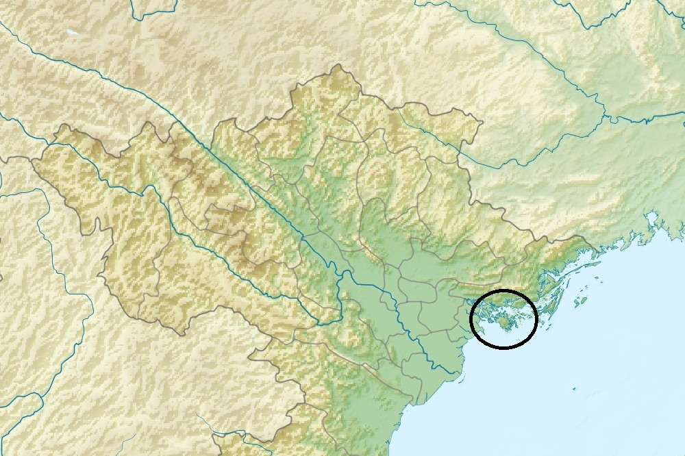 Cat Ba